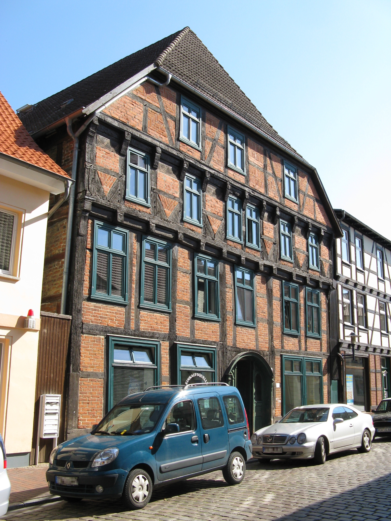 House Lindenstraße 3 in Parchim, Mecklenburg-Vorpommern, Germany